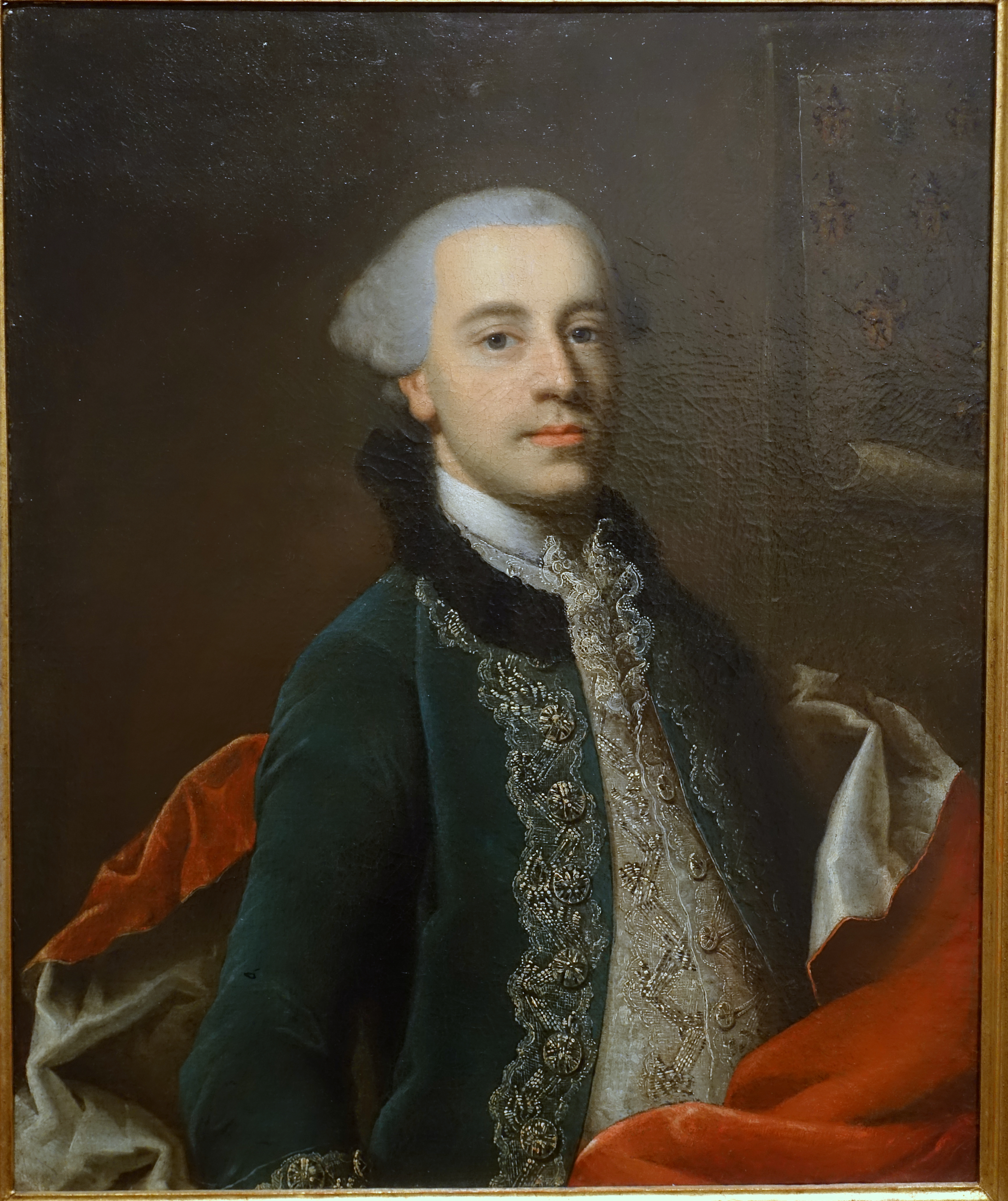 Exhibit in the Mainfränkisches Museum - Würzburg, Germany.